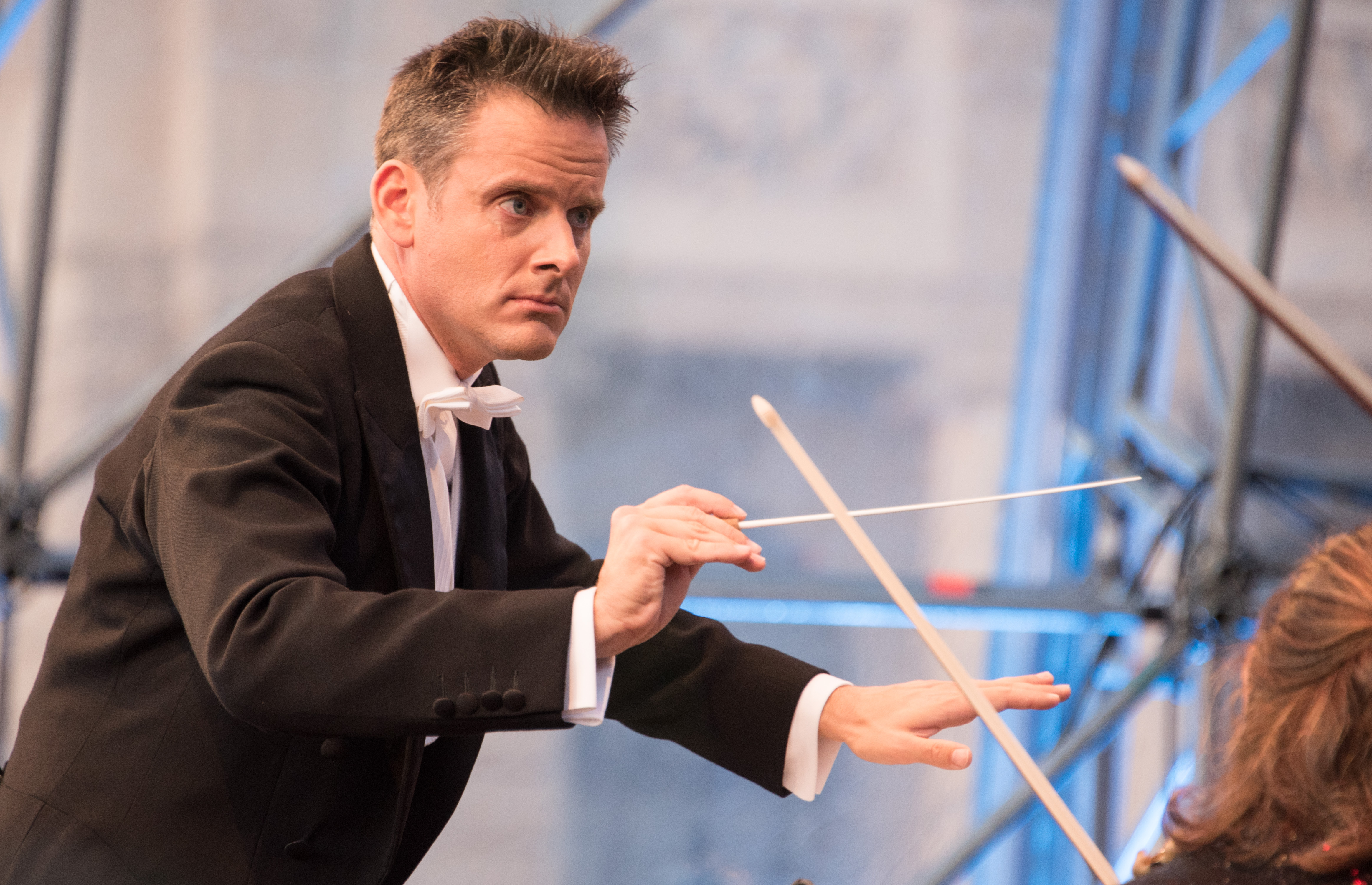 Philippe Jordan conducts at the Fest der Freude 2015